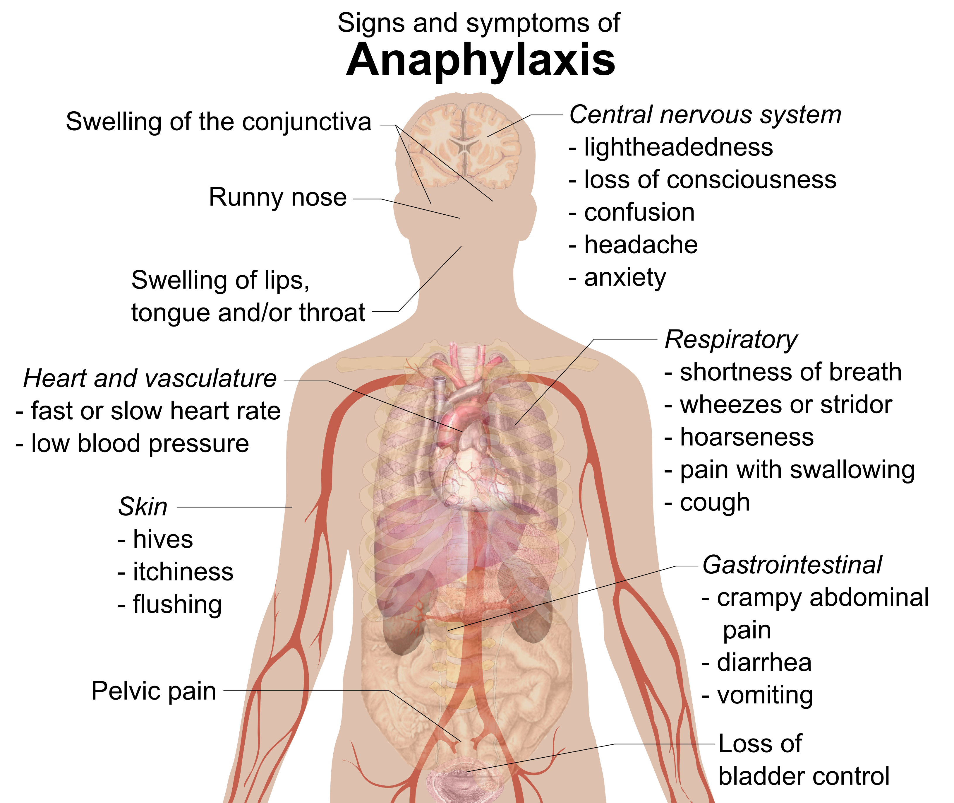 Signs and symptoms of anaphylaxis. References and further description is found at: Anaphylaxis#Signs and symptoms